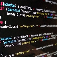 Example JavaScript code